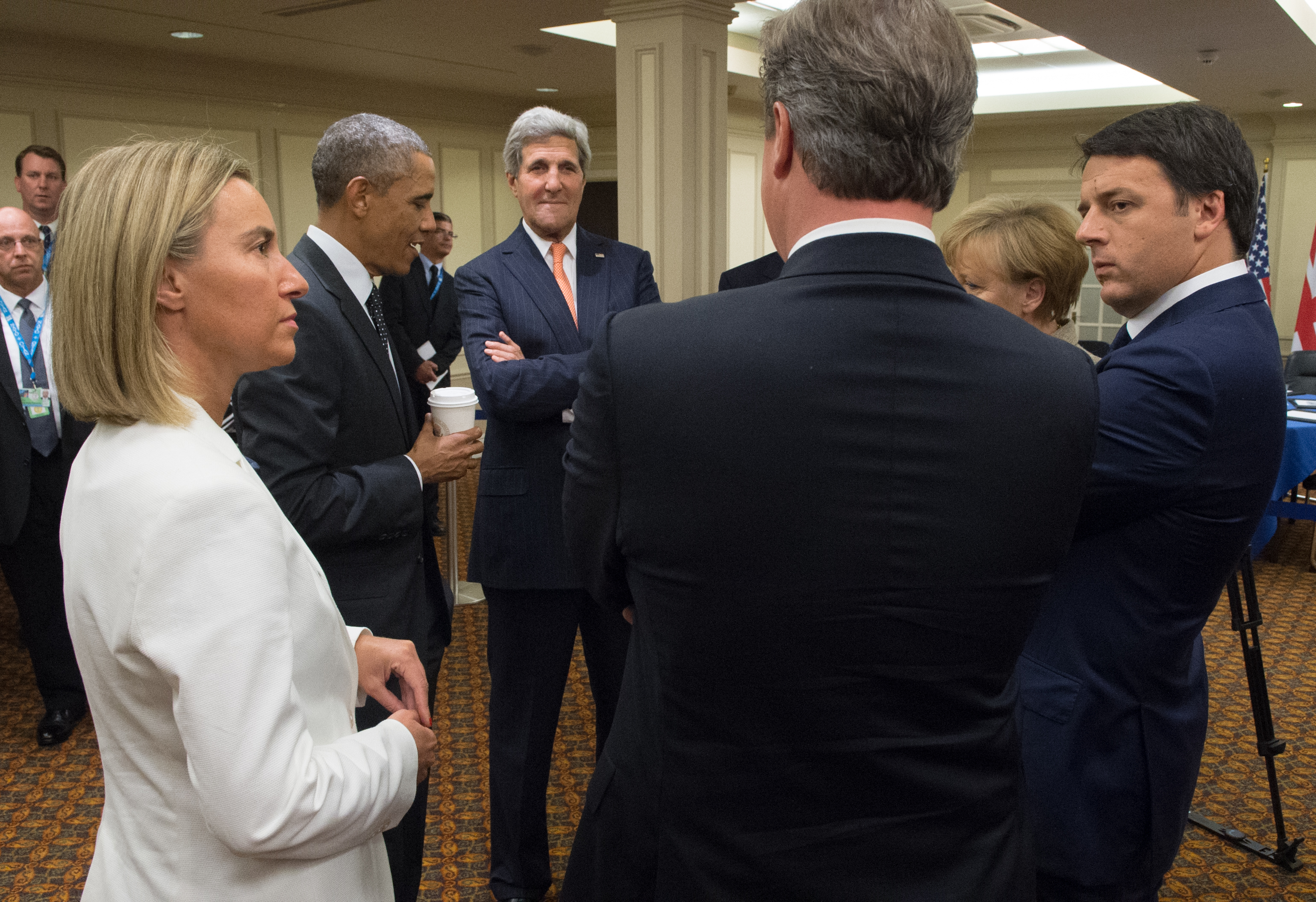 U.S. Secretary of State John Kerry, joined by Italian Foreign Minister Federica Mogherini, left, and Italian Prime Minister Matteo Renzi, right, listen to British Prime Minister David Cameron as President Obama speaks with German Chancellor Angela Merkel while waiting to meet with Ukrainian President Petro Poroshenko before the NATO Summit in Newport, Wales, United Kingdom on September 4, 2014. [State Department photo/ Public Domain]